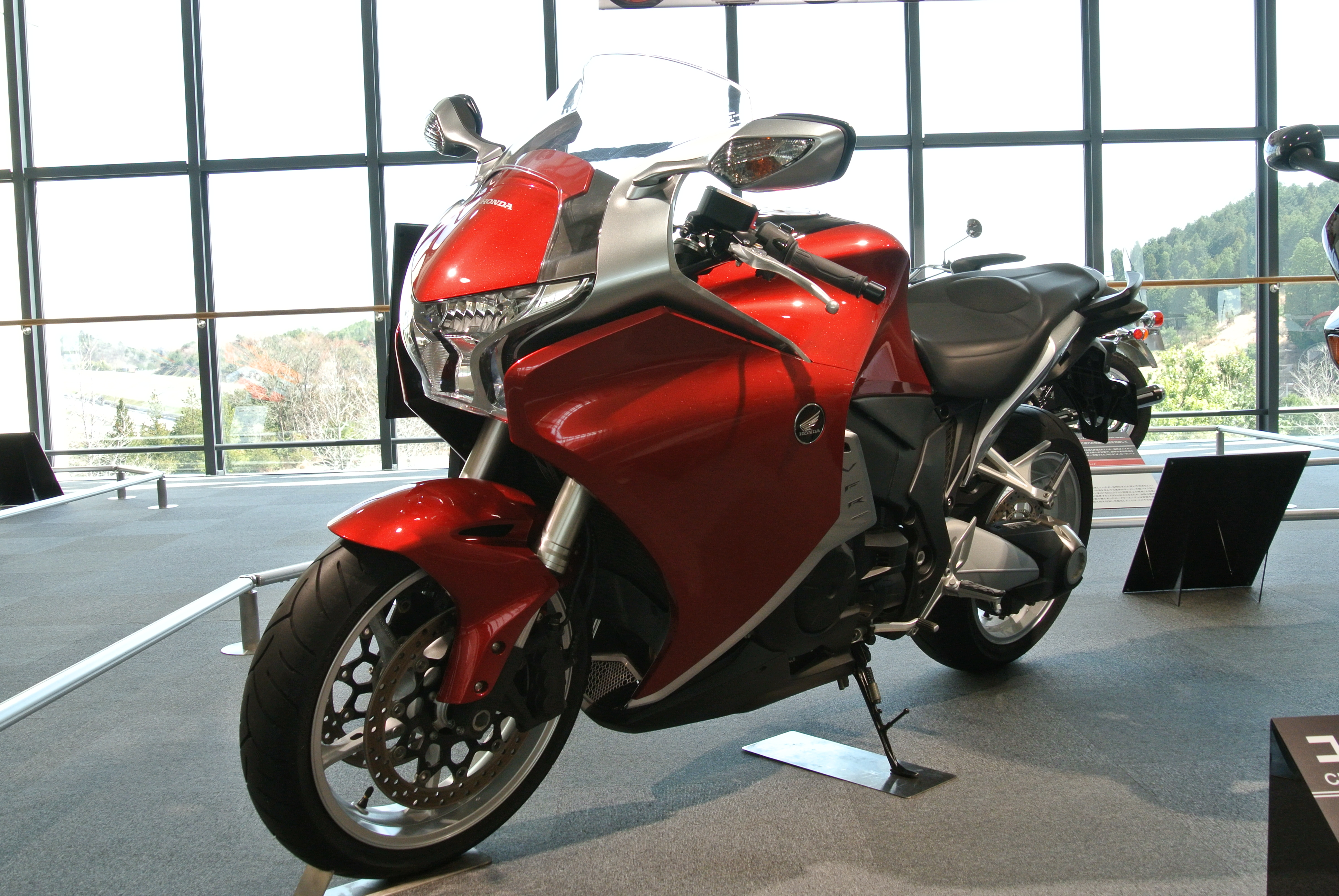 Honda VFR1200F in the Honda Collection Hall.